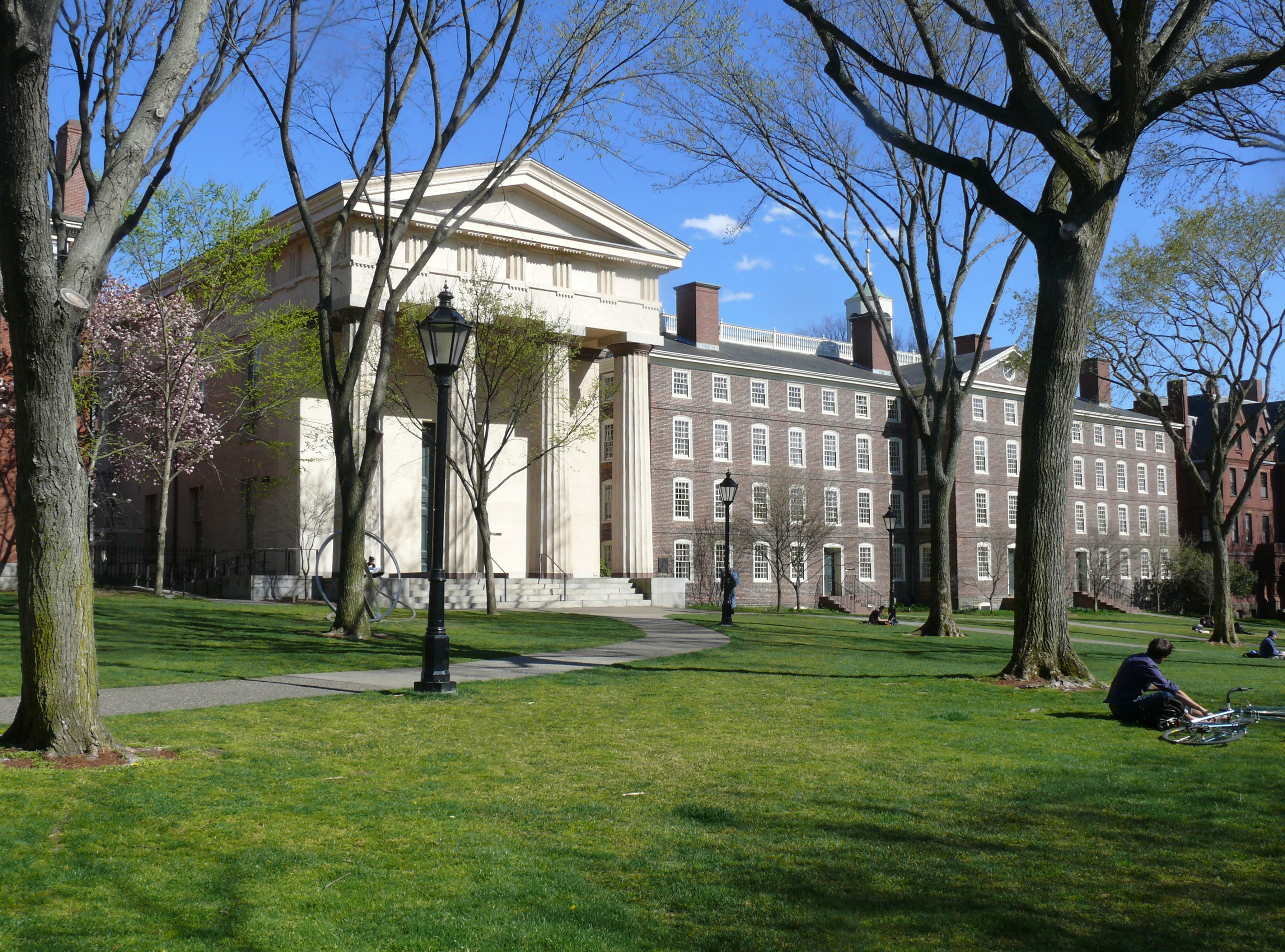 Manning Hall on Brown University's Campus in Providence, RI. Manning Hall was built in 1834 at the expense of Nicholas Brown and named at his request for President Manning.